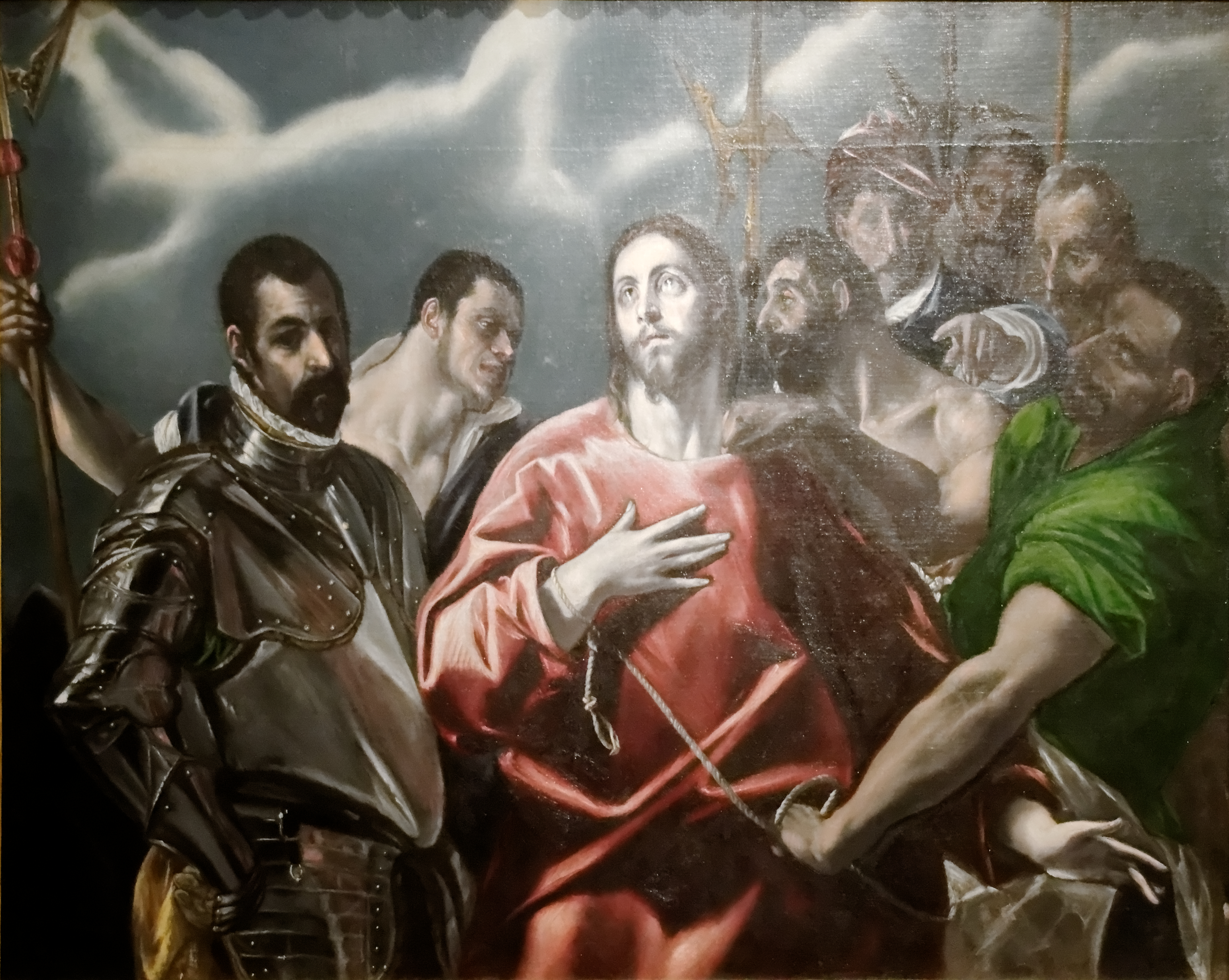 The dirobing of Christ (El espolio), 1580-1600. School of Domenikos Theotokopoulos, called El Greco. Budapest museum of fine arts. Acquired in 1950. N° inv 50.747